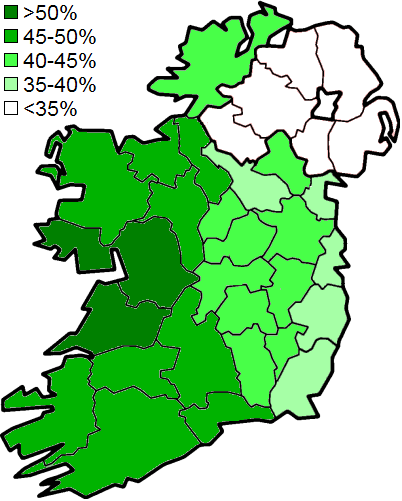 Language map of Ireland